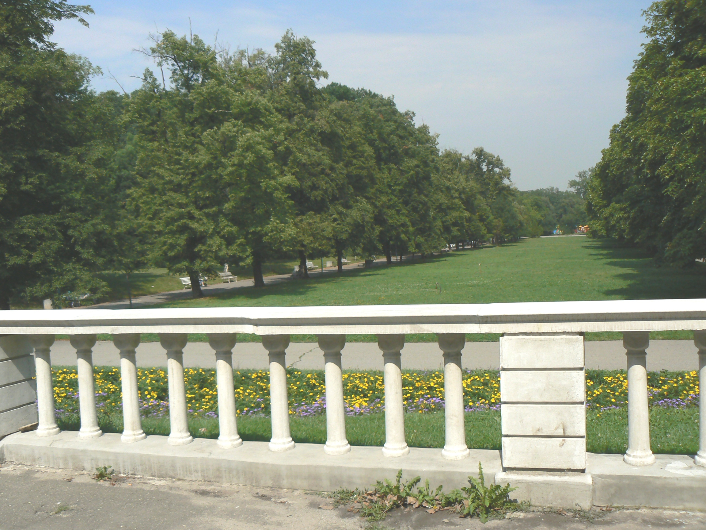 Borisova garden, Sofia